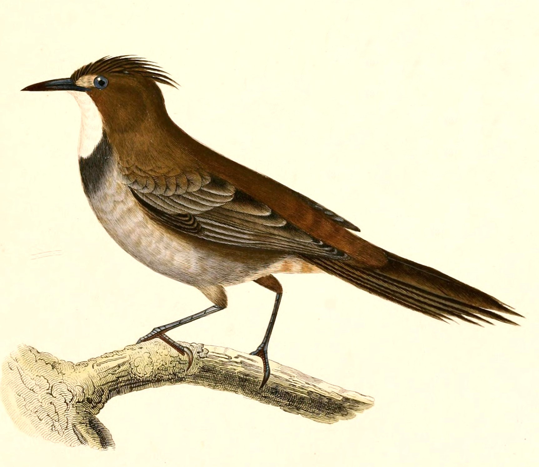 « Anabates gutturalis » = Pseudoseisura gutturalis (White-throated Cacholote)